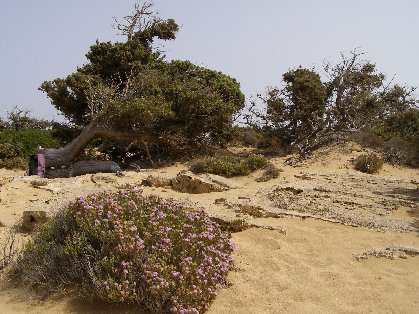 Beach vegetation on Gavdos, Greece. In the foreground, flowering Thymus capitatus; behind the tree is Juniperus macrocarpa.